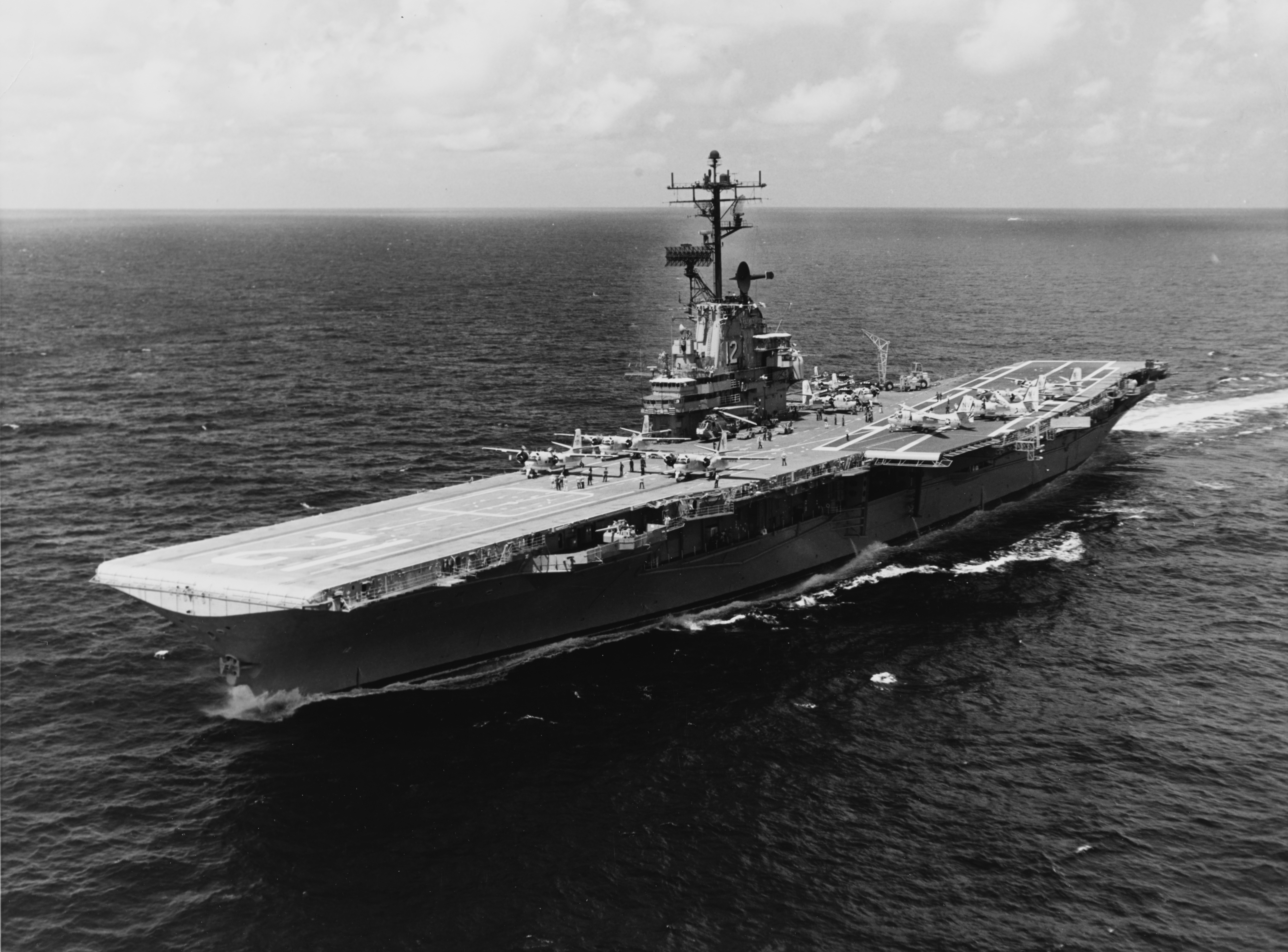 The U.S. Navy aircraft carrier USS Hornet (CVS-12) underway in the Gulf of Tonkin on 5 September 1967. Hornet, with assigned Carrier Anti-Submarine Air Group 57 (CVSG-57), was deployed to the Western Pacific and Vietnam from 27 March to 28 October 1967.